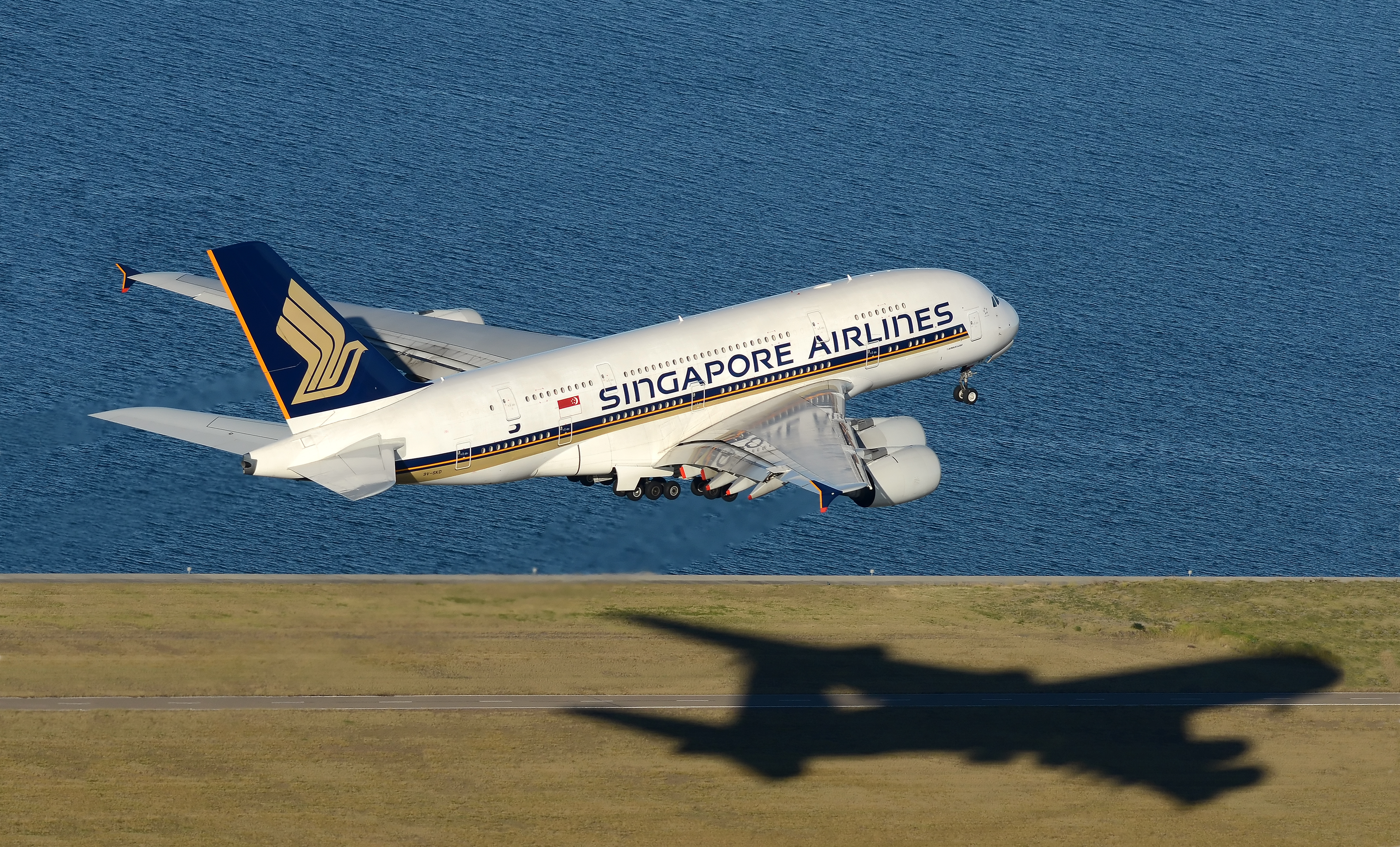 Singapore Airlines Airbus A380 (9V-SKD) operating as SQ222 taking off in a southerly direction on Runway 16R at Sydney's Kingsford Smith Airport. Photo taken from a chopper flying parallel at approx 500ft. Focal length 200mm on F8 aperture.